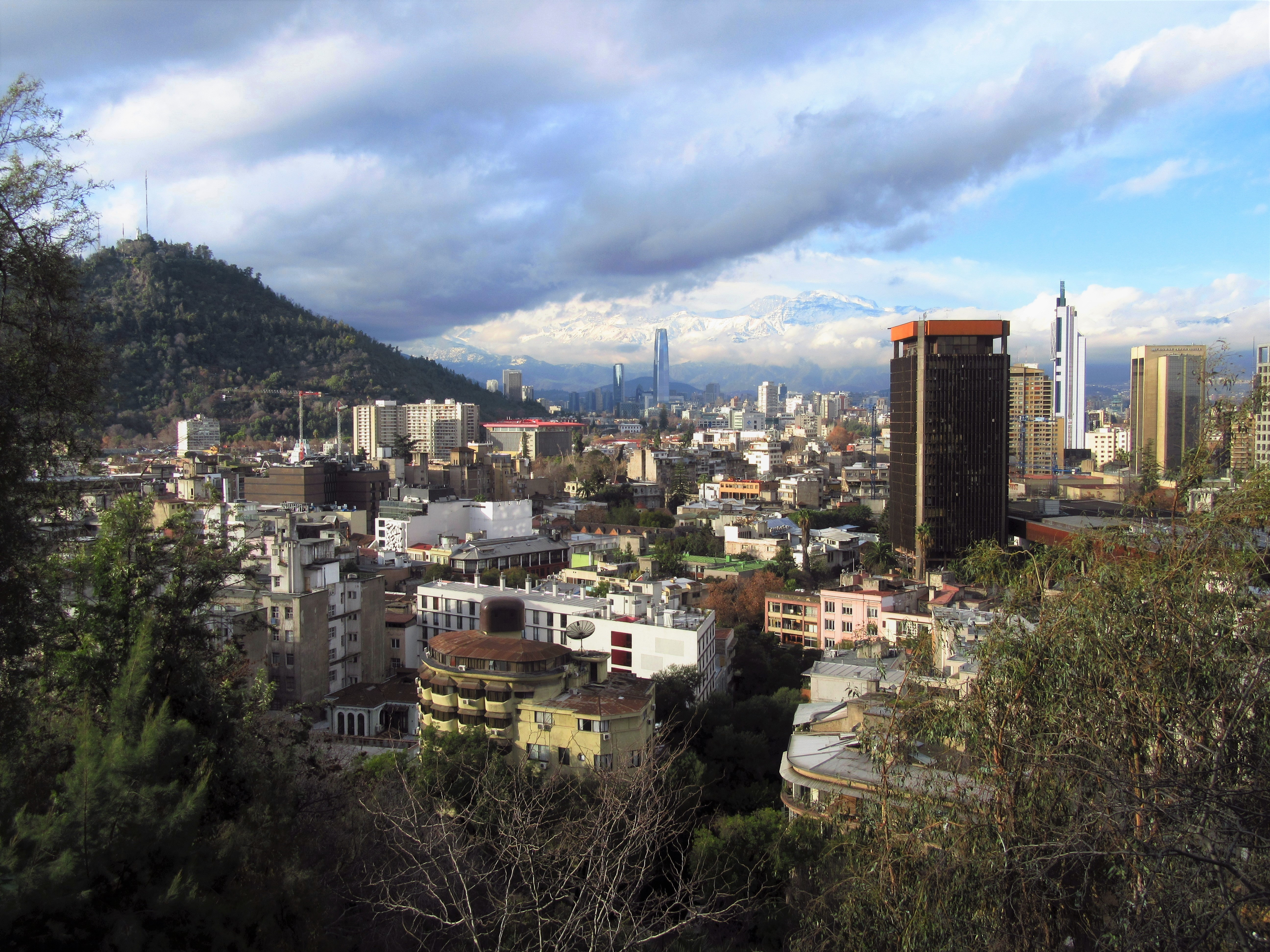 2017 in Santiago de Chile